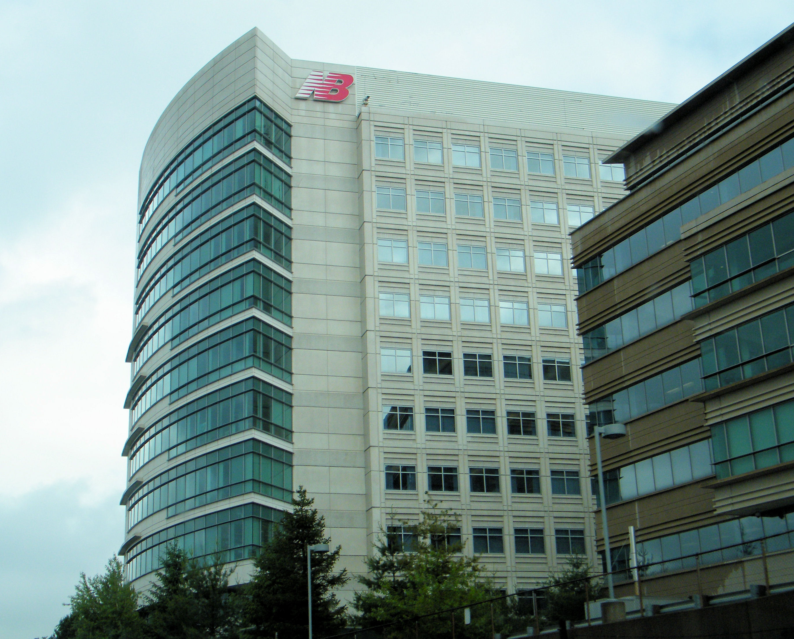 New Balance headquarters in Boston, next to the Massachusetts Turnpike.